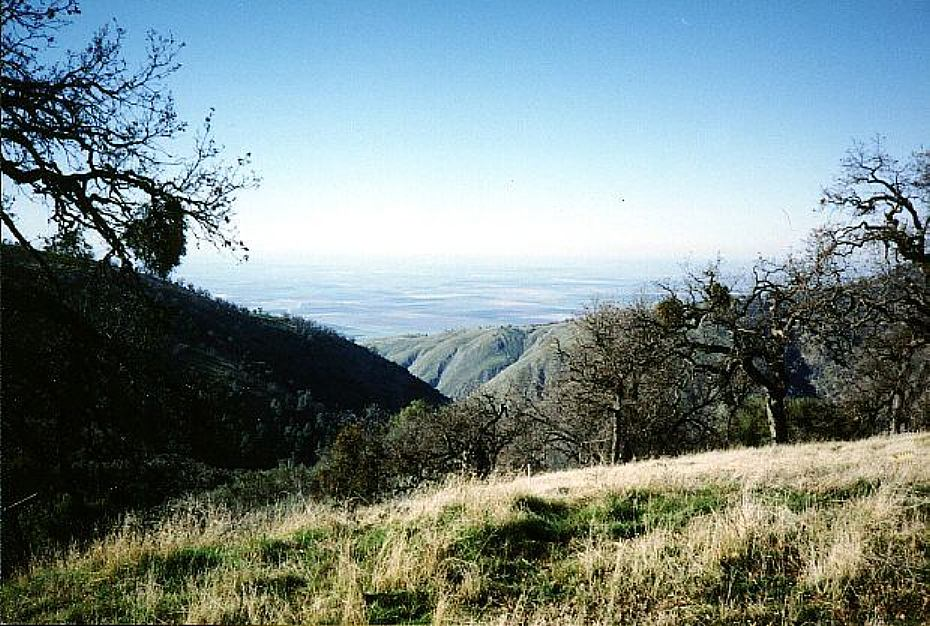 From the peak of Bear Mountain, California's fertille Central Valley stretches out to the horizon.